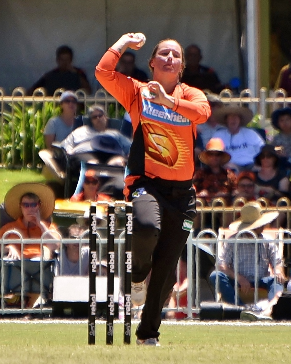 Perth Scorchers all-rounder Hayley Jensen bowling against the Sydney Sixers, in a WBBL match at Lilac Hill Park in Perth